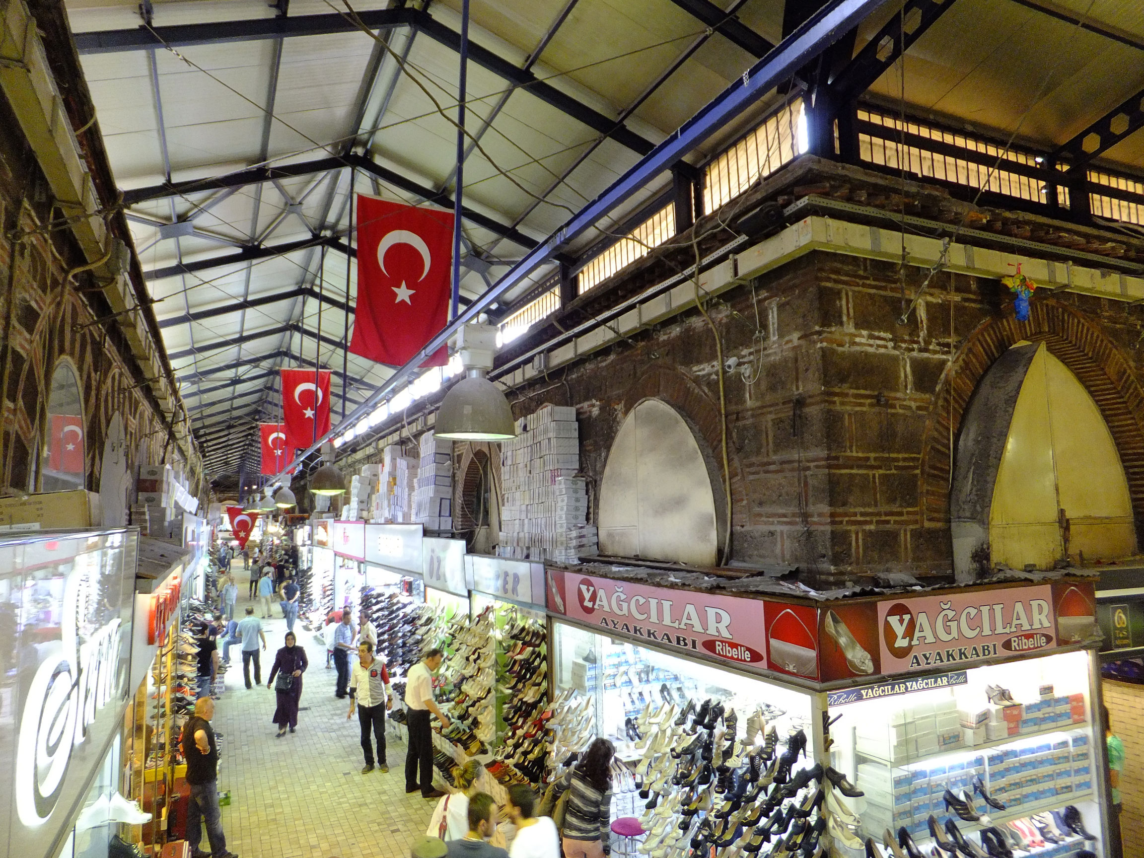 Bedesten of Bursa: outer area, also seems to be called the Kapali Carsi (Covered Market)